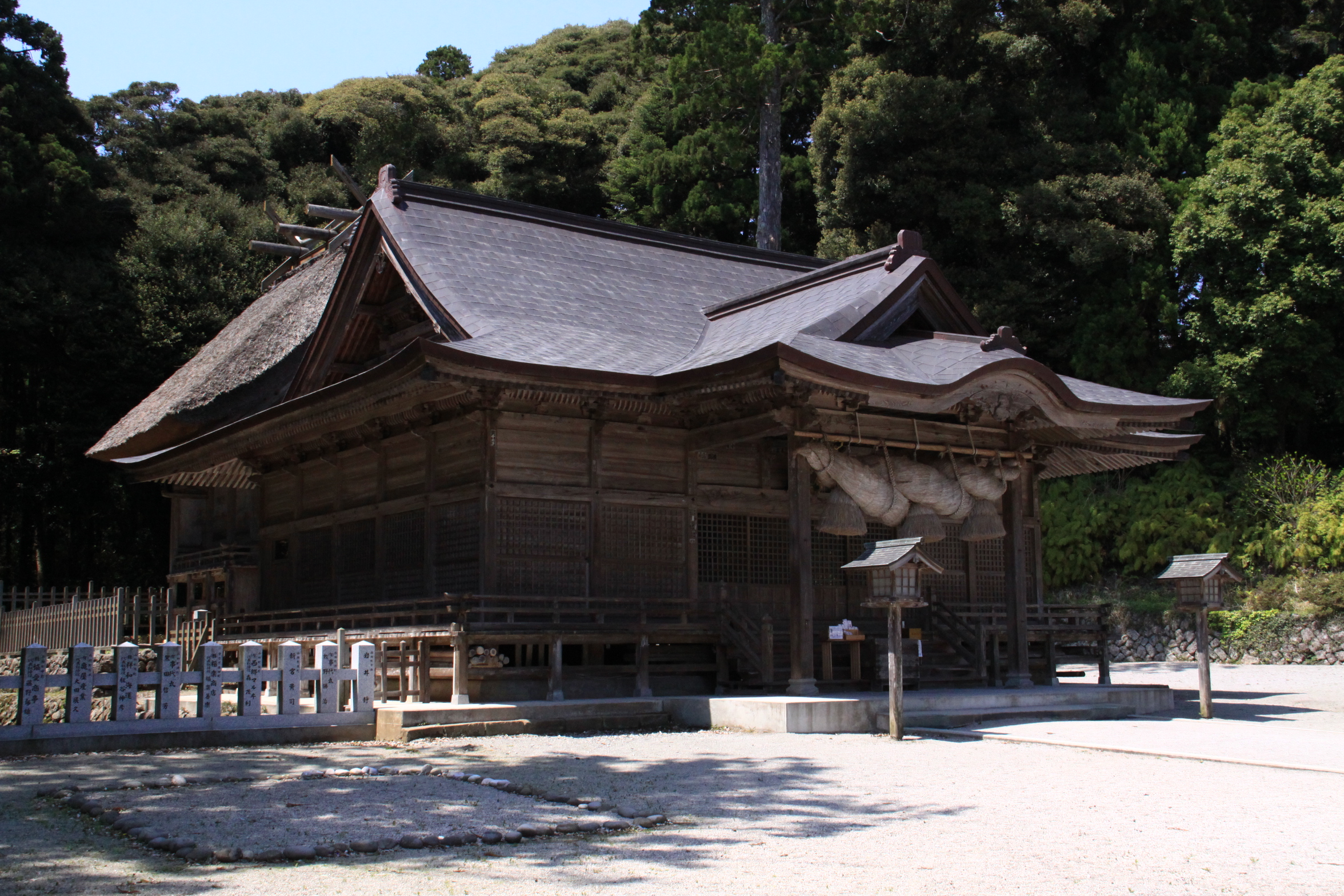 Tamawakasumikoto jinja Haiden